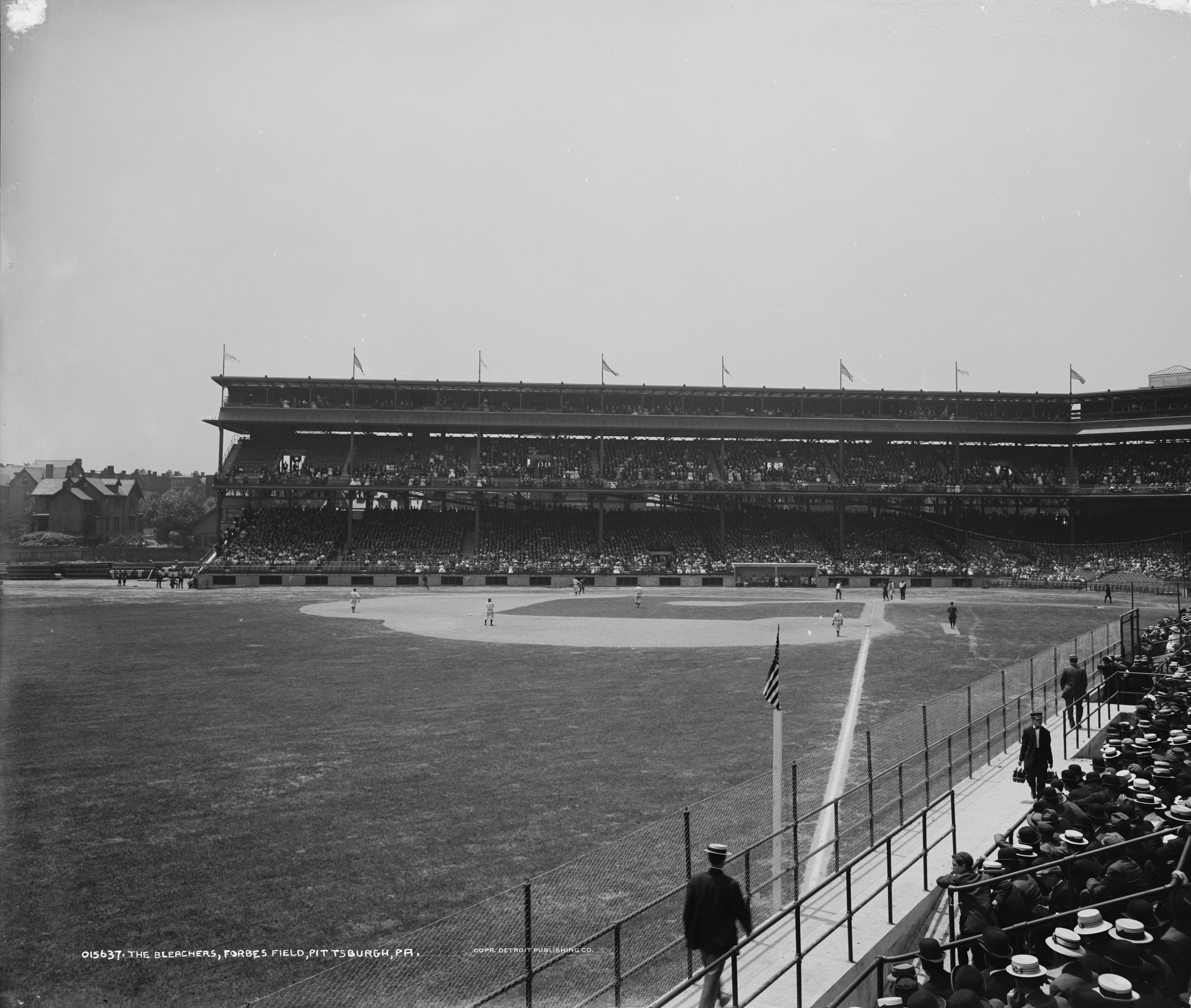 View of the grandstand at Forbes Field from the bleachers.